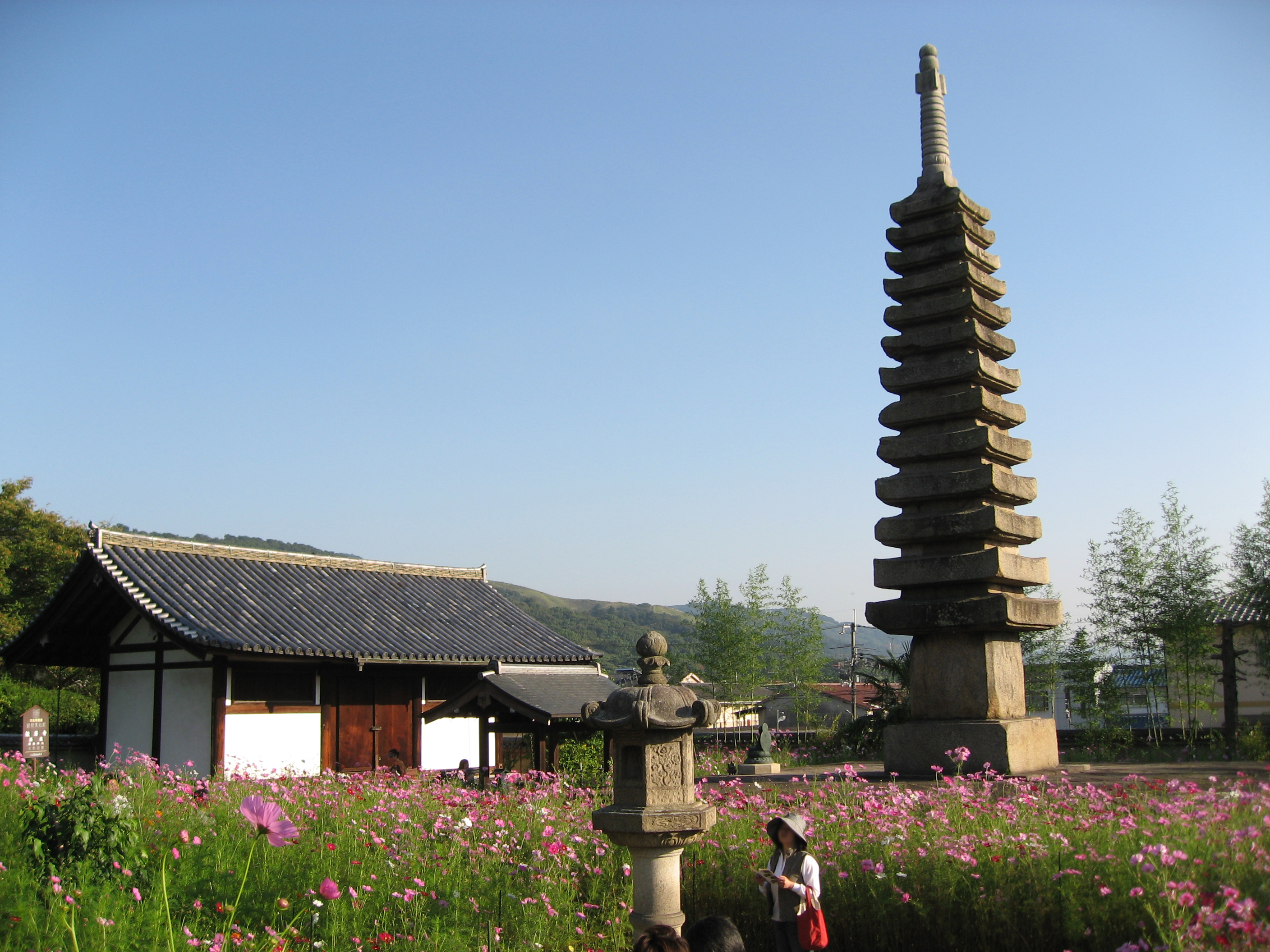 Kyozō (left) and Thirteen-story stone pagoda (right) at Hannya-ji Hannyaji Nara-City Nara Pref., Japan.